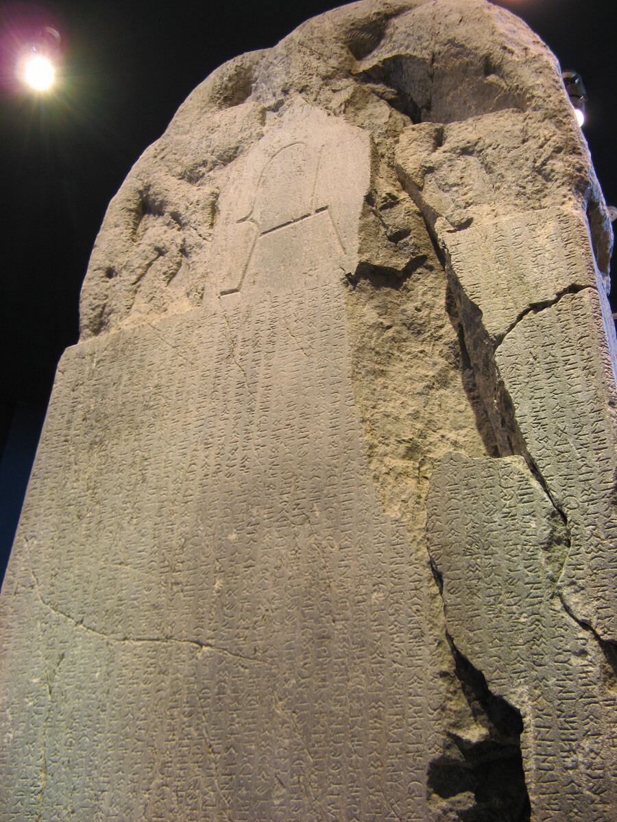 Monument to Kul Tegin, Orkhon valley, Mongolia